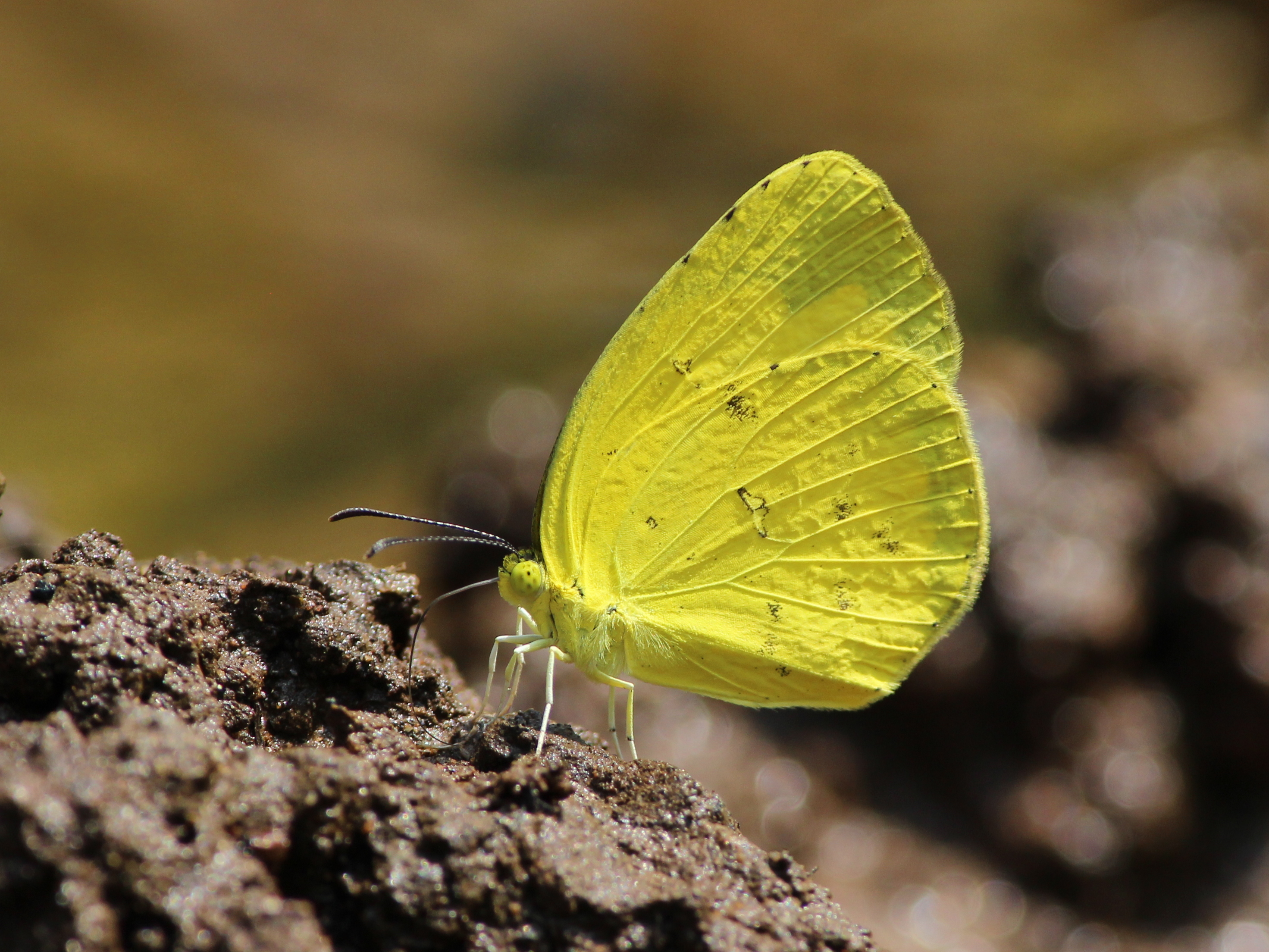 Eurema hecabe Linnaeus, 1758 – Common Grass Yellow from savandurga,Bangalore